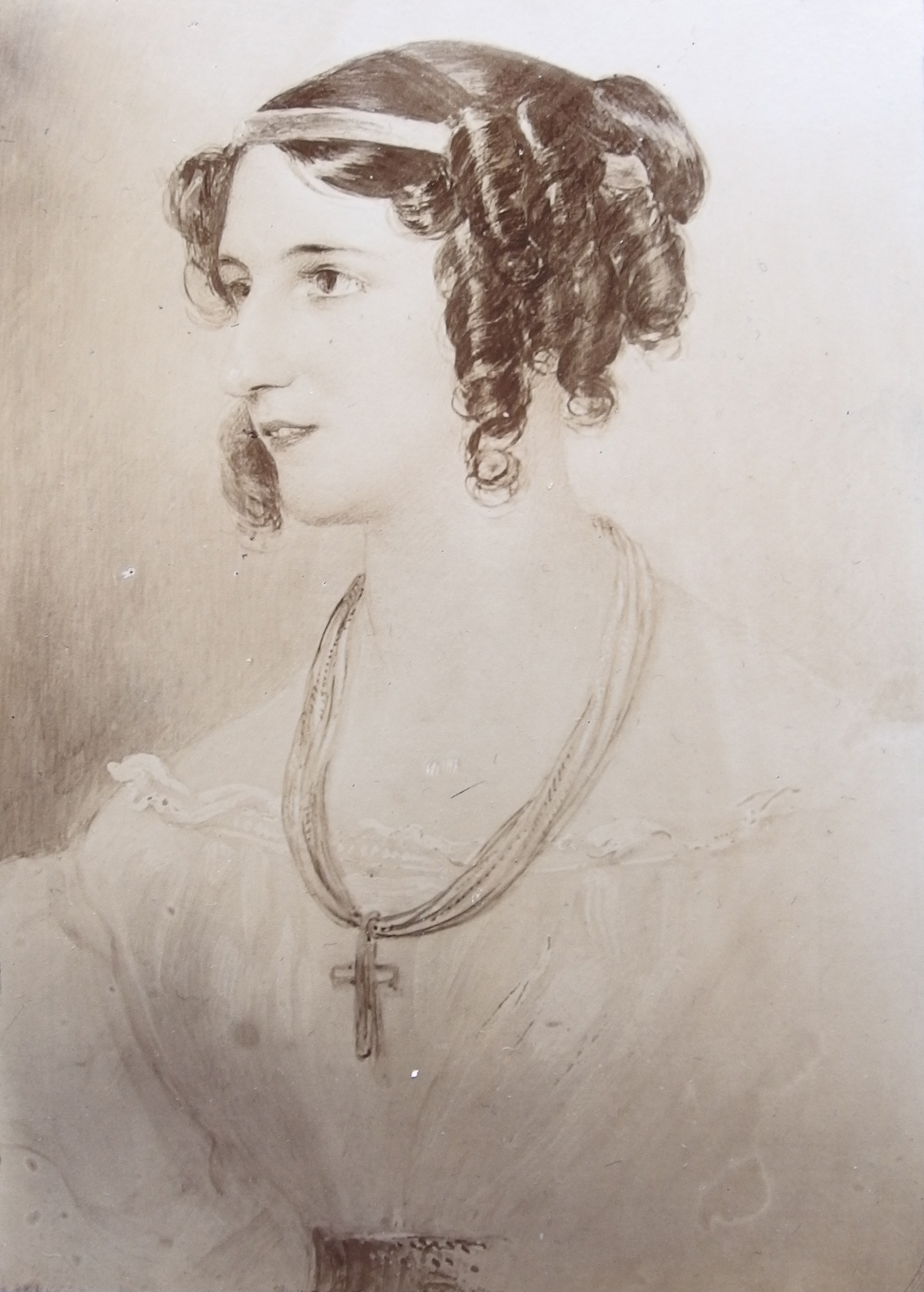 Lady Augusta Murray (1768-1830), photography of miniature painting by August Grahl